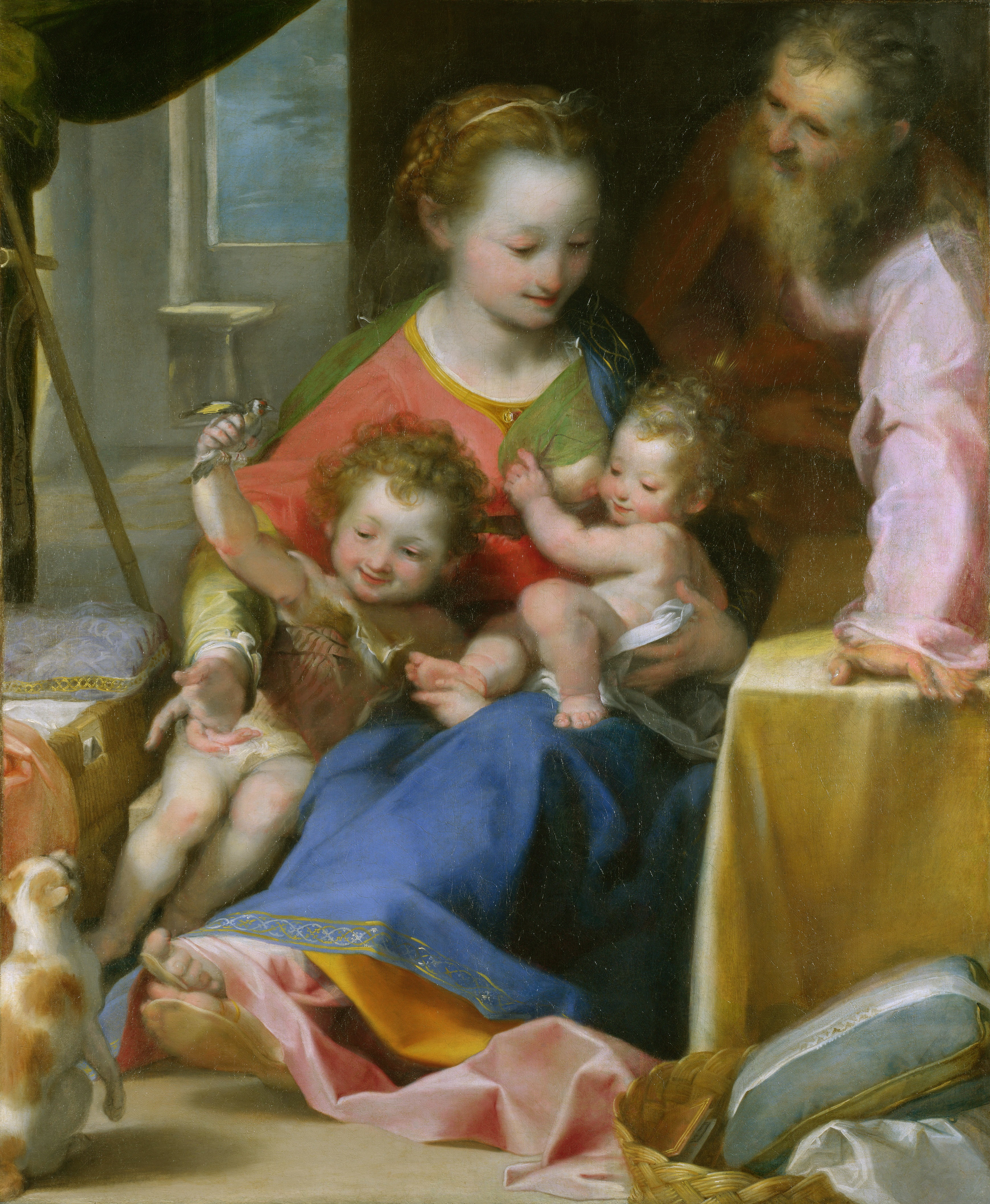 The Madonna and Child with Saint Joseph and the Infant Baptist